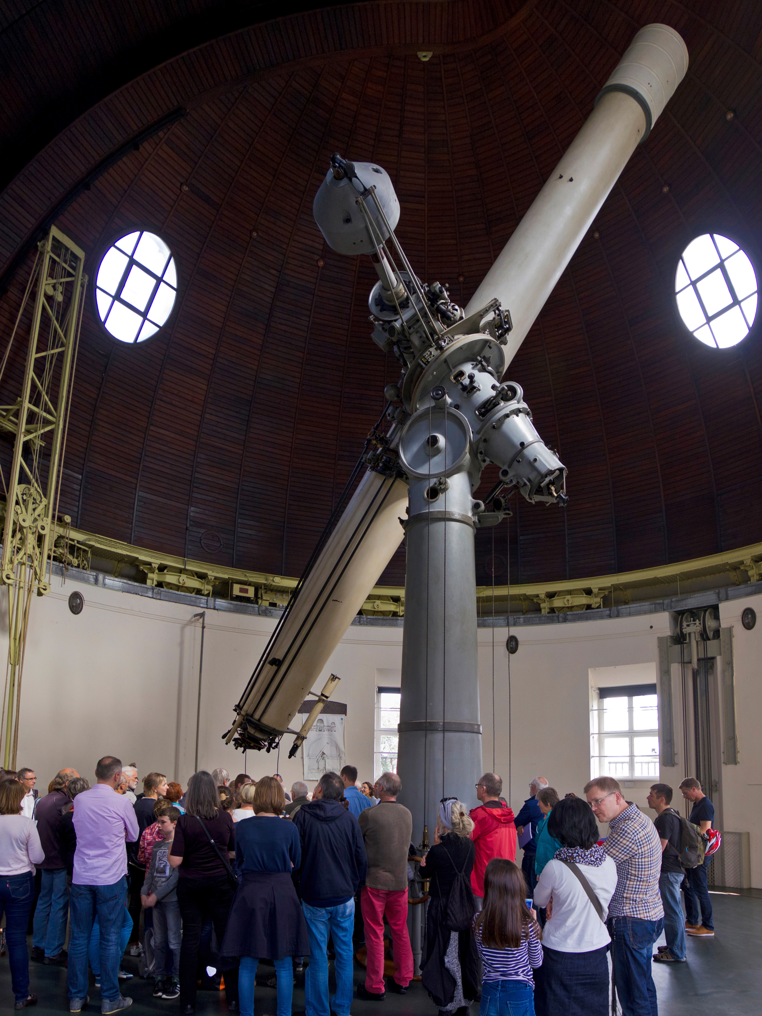 Zeiss Refractor (65 cm aperture, 10.1 m focal length) built in 1915 for the Berlin Observatory, which has just been relocated in 1913 to Babselsberg.